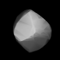 3D convex shape model of 1404 Ajax, computed using light curve inversion techniques. J. Hanuš, J. Ďurech, M. Brož, B. D. Warner (June 2011). "A study of asteroid pole-latitude distribution based on an extended set of shape models derived by the lightcurve inversion method". Astronomy and Astrophysics 530: A134. ISSN 0004-6361. arXiv